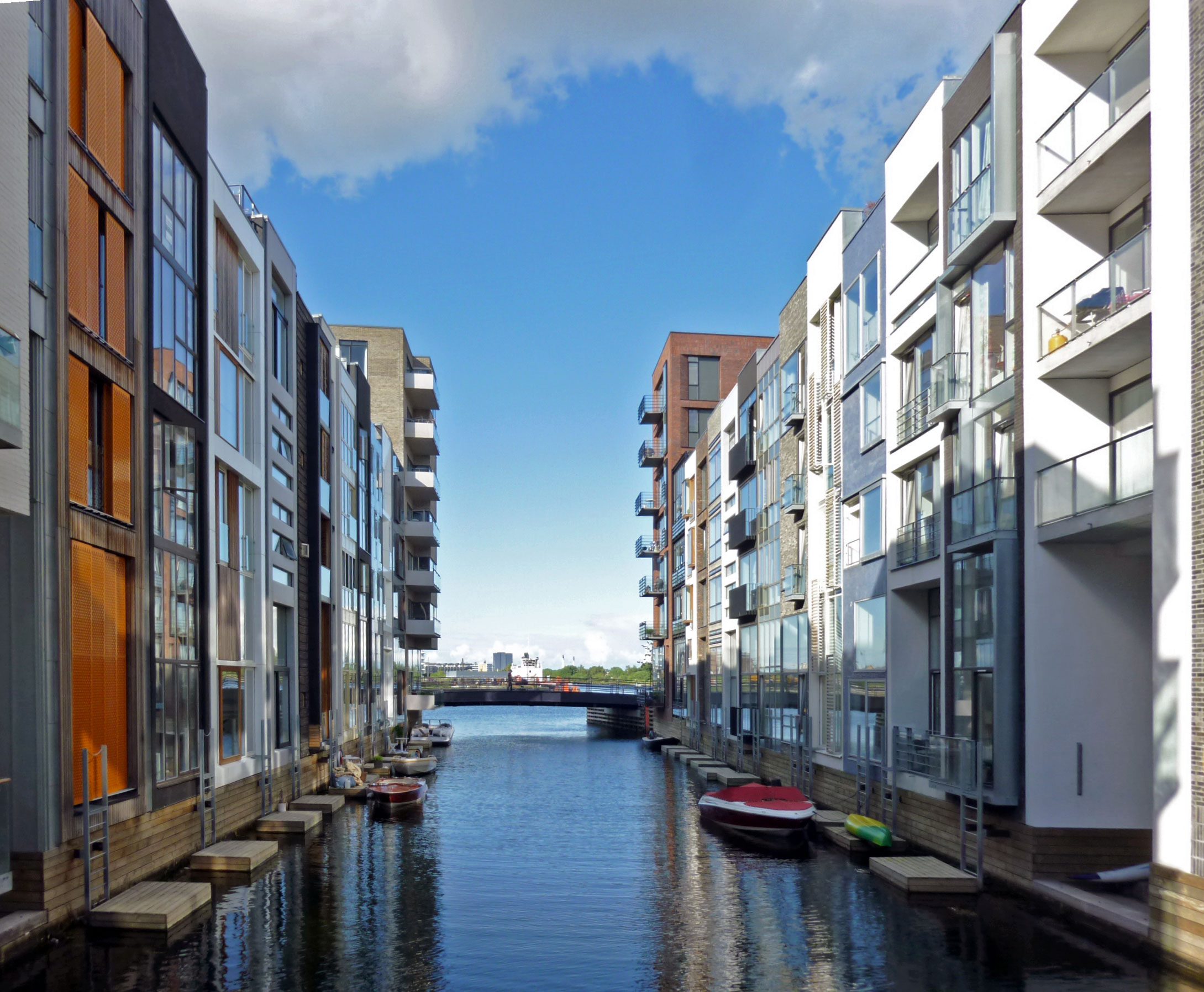 Canal scene at the Sluseholmen Canal District in the Southern Docklands of Copenhagen, Denmark